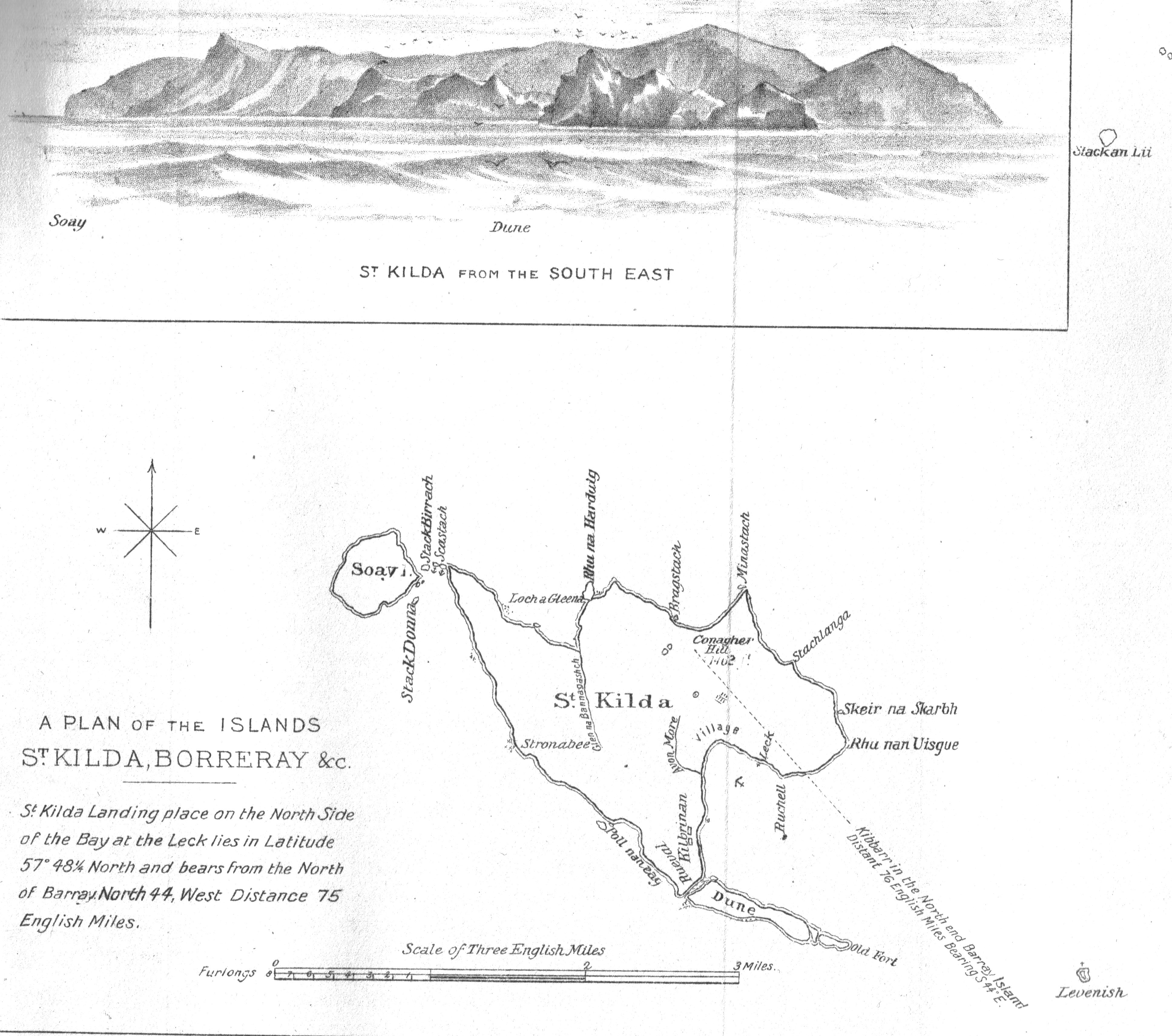 Outer Hebrides, Scotland. Saint Kilda map and drawing